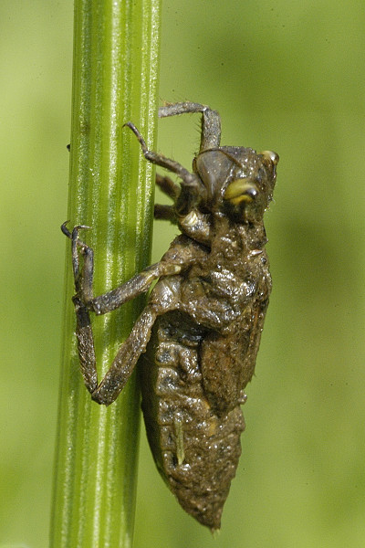 Picture taken in Commanster, Belgian High Ardennes . Species: Libellula depressa nymph on land